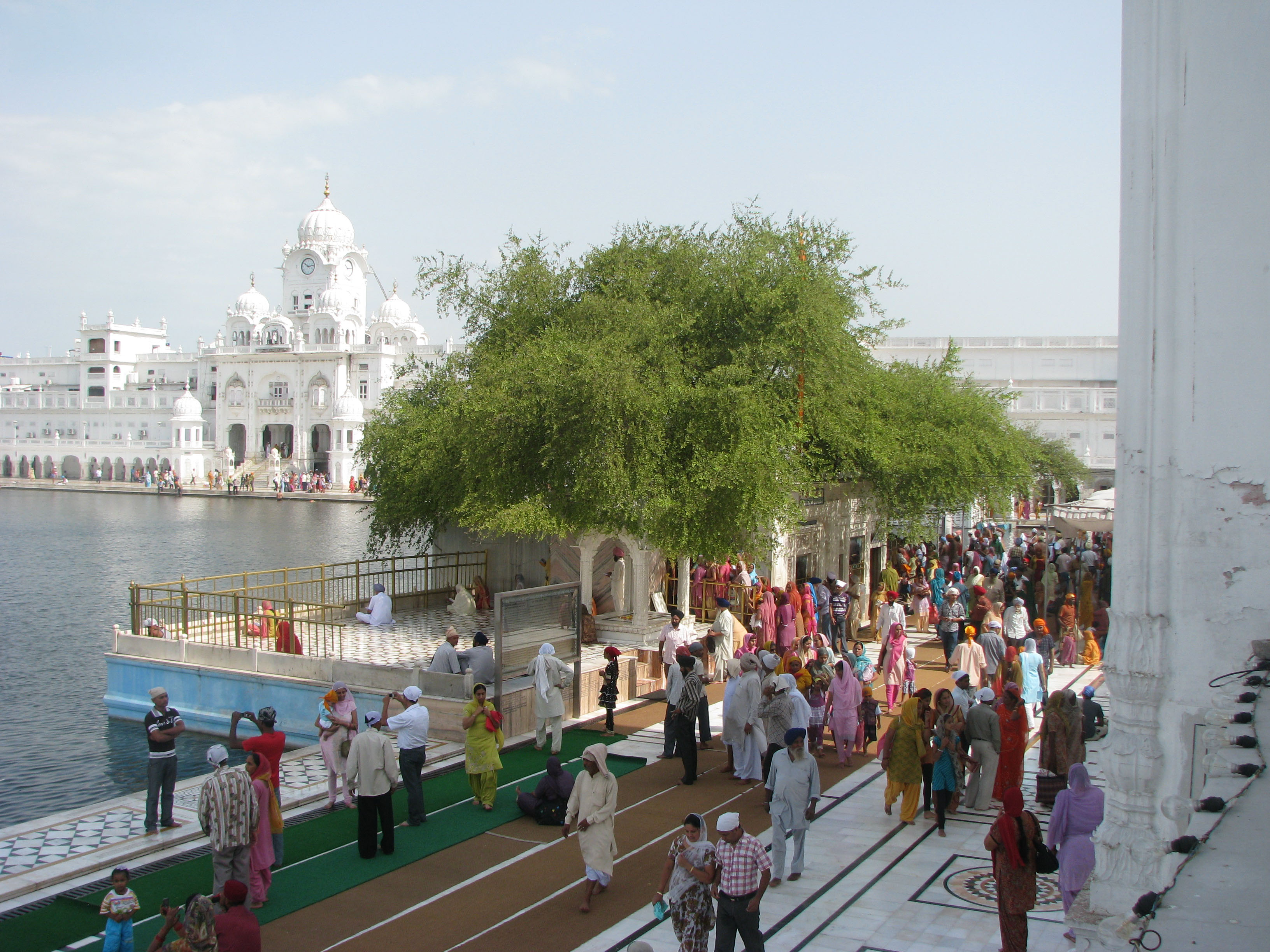 Wide-angle view of Sri Harmandir Sahib